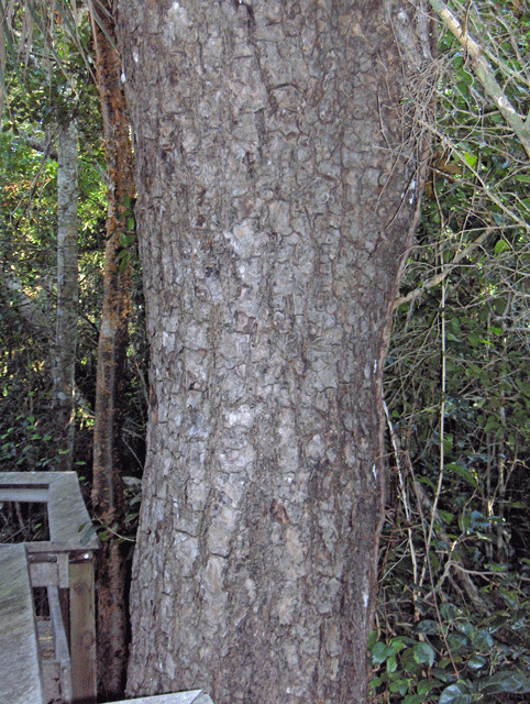 Found in Everglades National Park